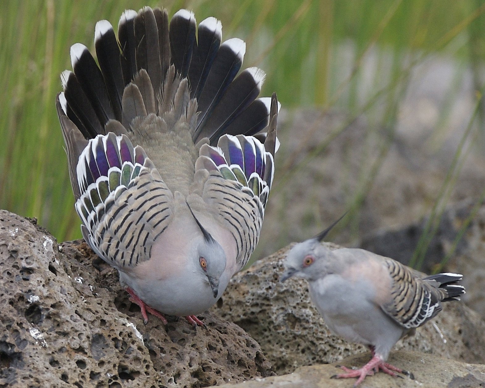 Will she or won't she - Crested Pigeon - pair Ocyphaps lophotes Not quite Australian - Introduced Trin Warren Tam-boore, Royal Park, Melbourne, Australia 9th. November 2008 690V5818